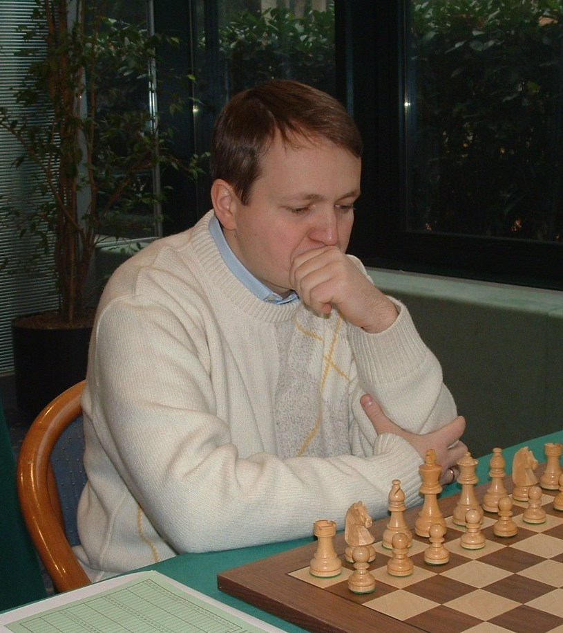 Photo of Grandmaster Viorel Iordachescu at Reggio Emilia 2006/07